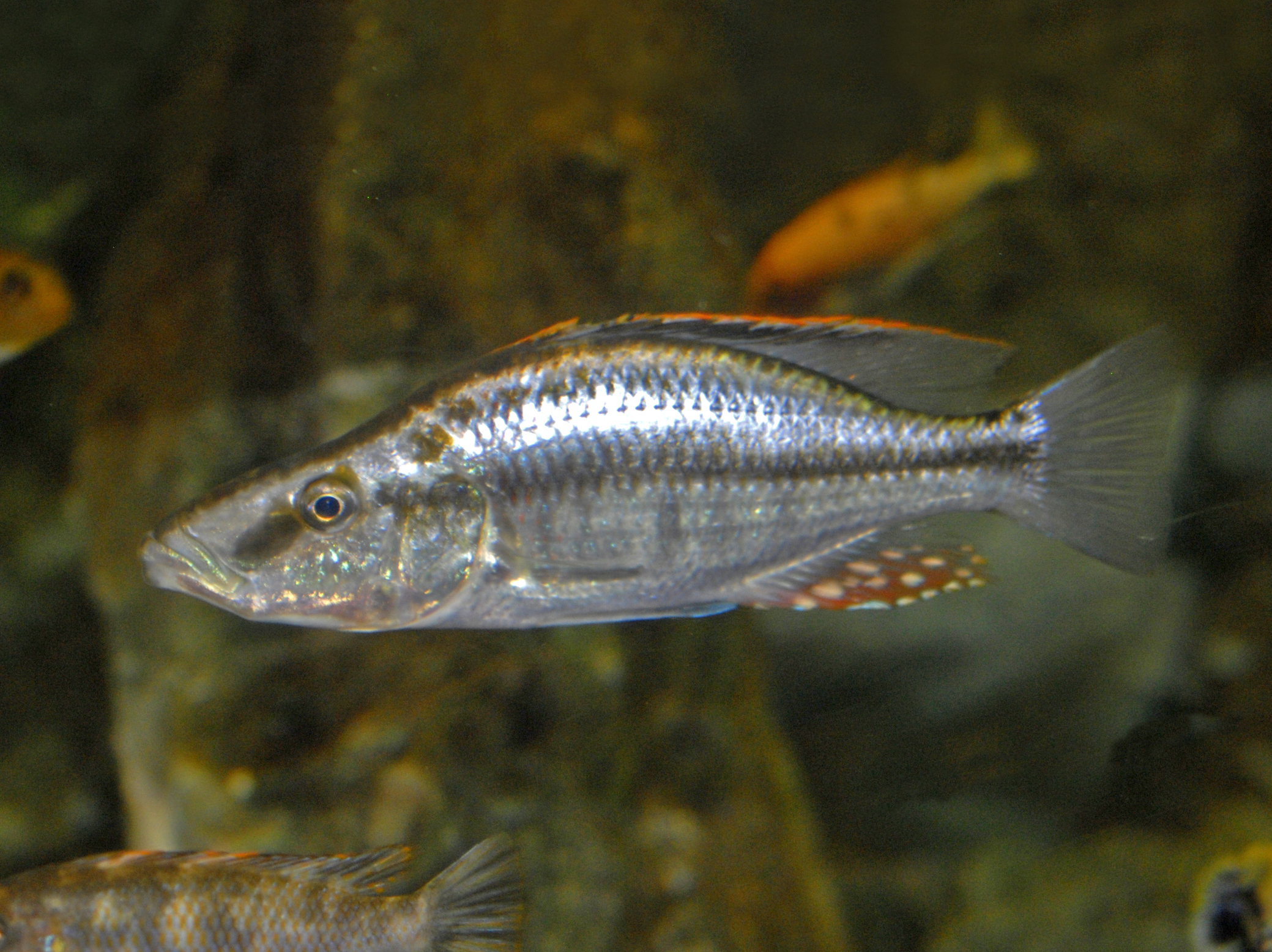 Dimidiochromis compressiceps at the Aquarium of Genoa